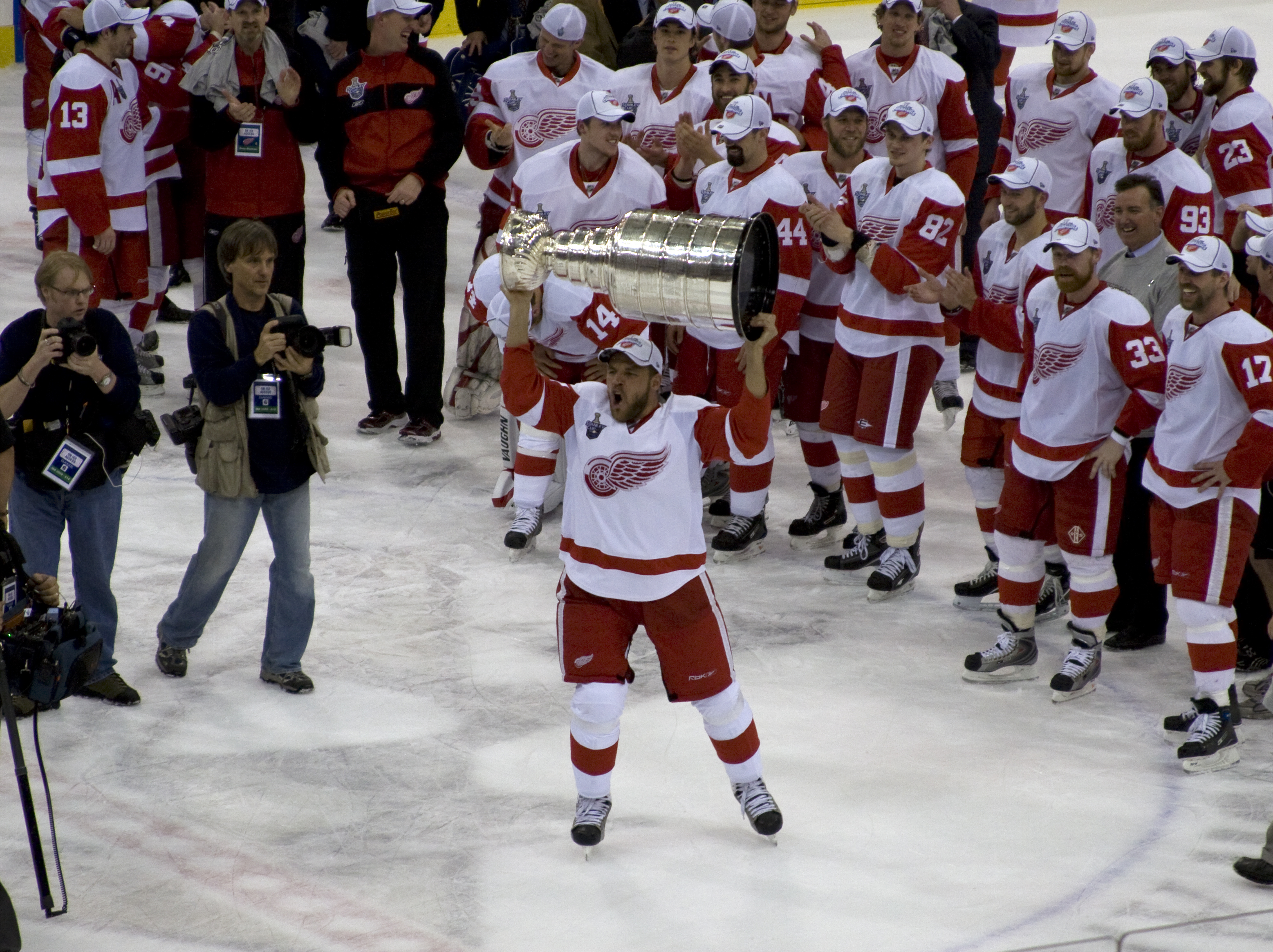 The Detroit Red Wings celebrate the victory over the Penguins